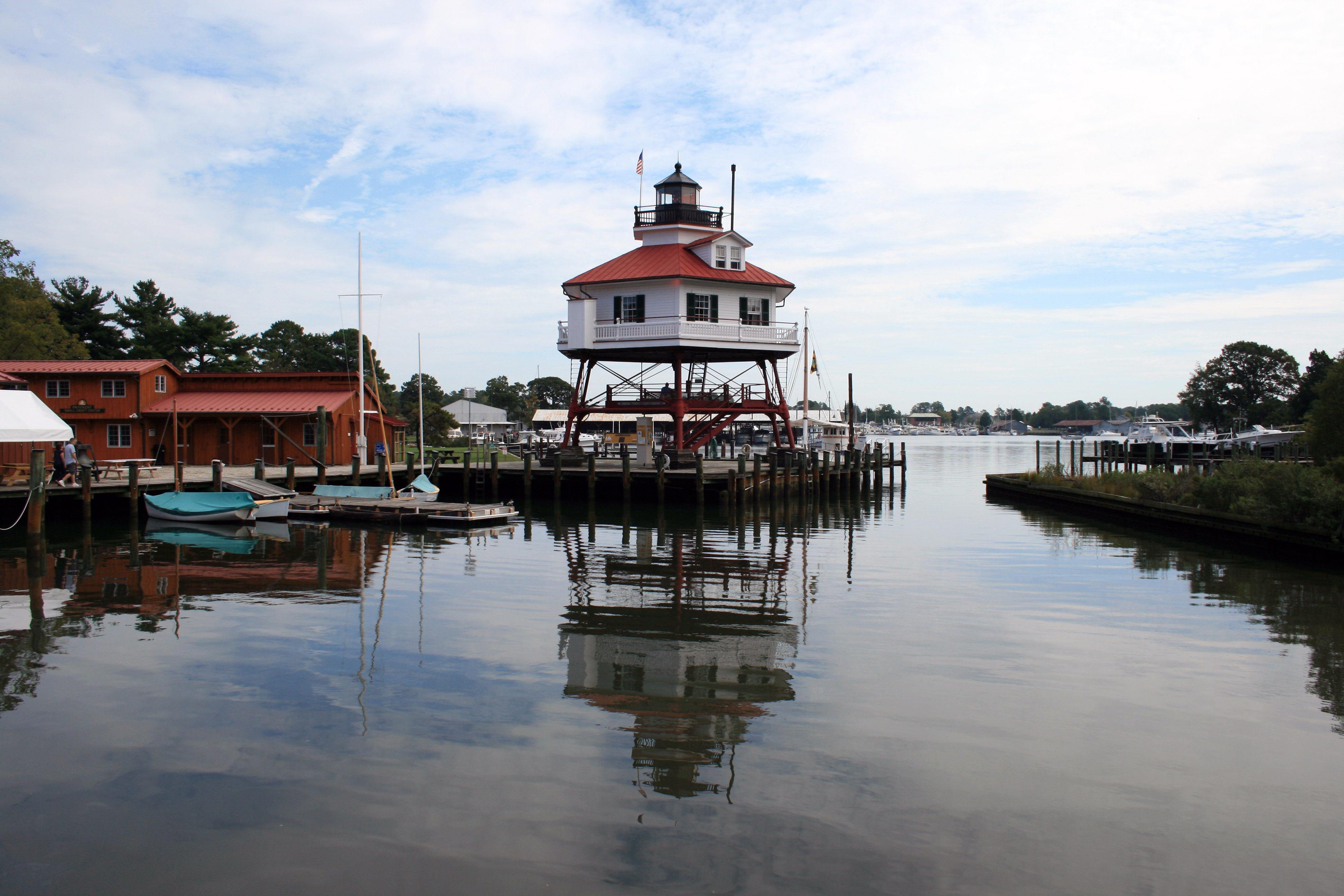 Drum Point Lighthouse, West shore of Back Creek, Calvert Marine Museum Solomons Island